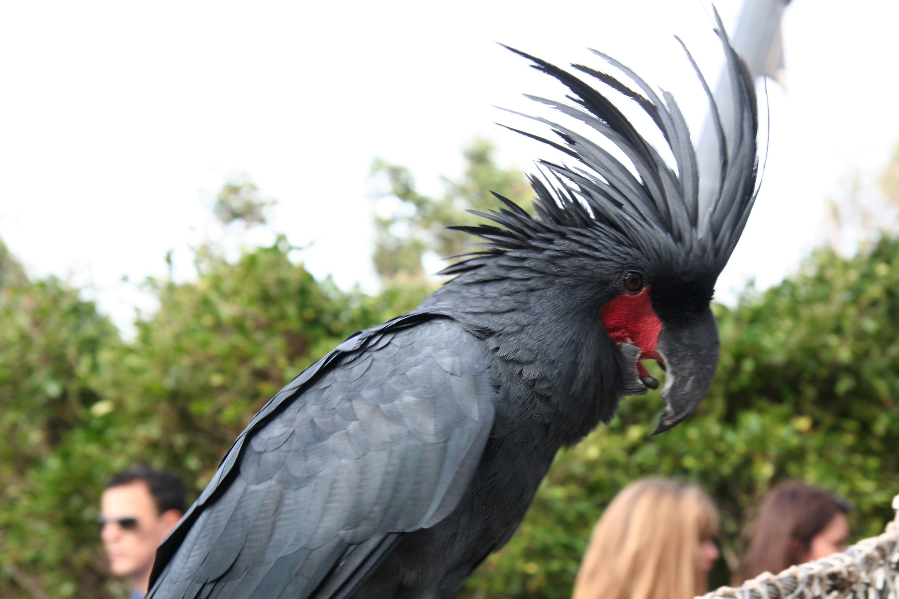 A Palm Cockatoo in Loro Parque, Tenerife, Spain.